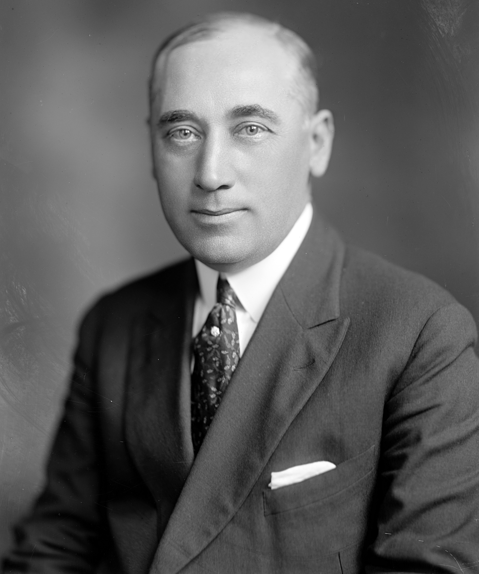 Cornelius Augustine McGlennon, US Representative from New Jersey